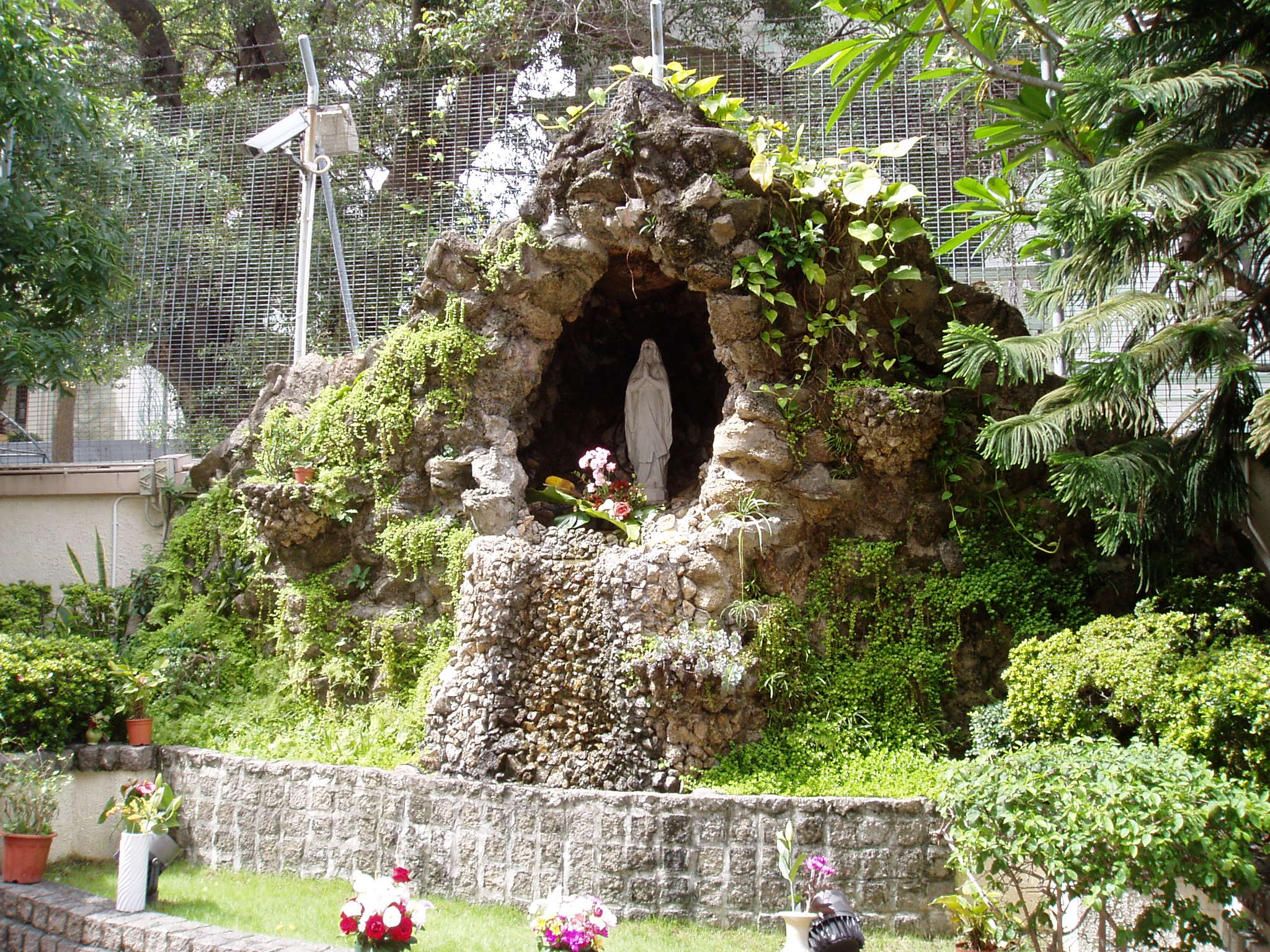 Our Lady of Lourdes in Rosary Church